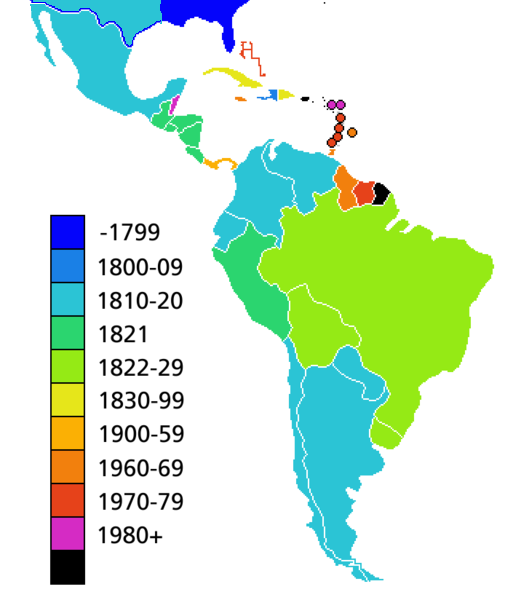 Independences